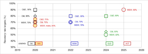 Comparison of resource recovery targets in several Australian jurisdictions